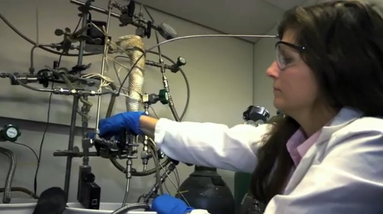 Screen capture taken from a video published by the U.S. Naval Research Laboratory, hosted on the news page: "Scale Model WWII Craft Takes Flight With Fuel From the Sea Concept".